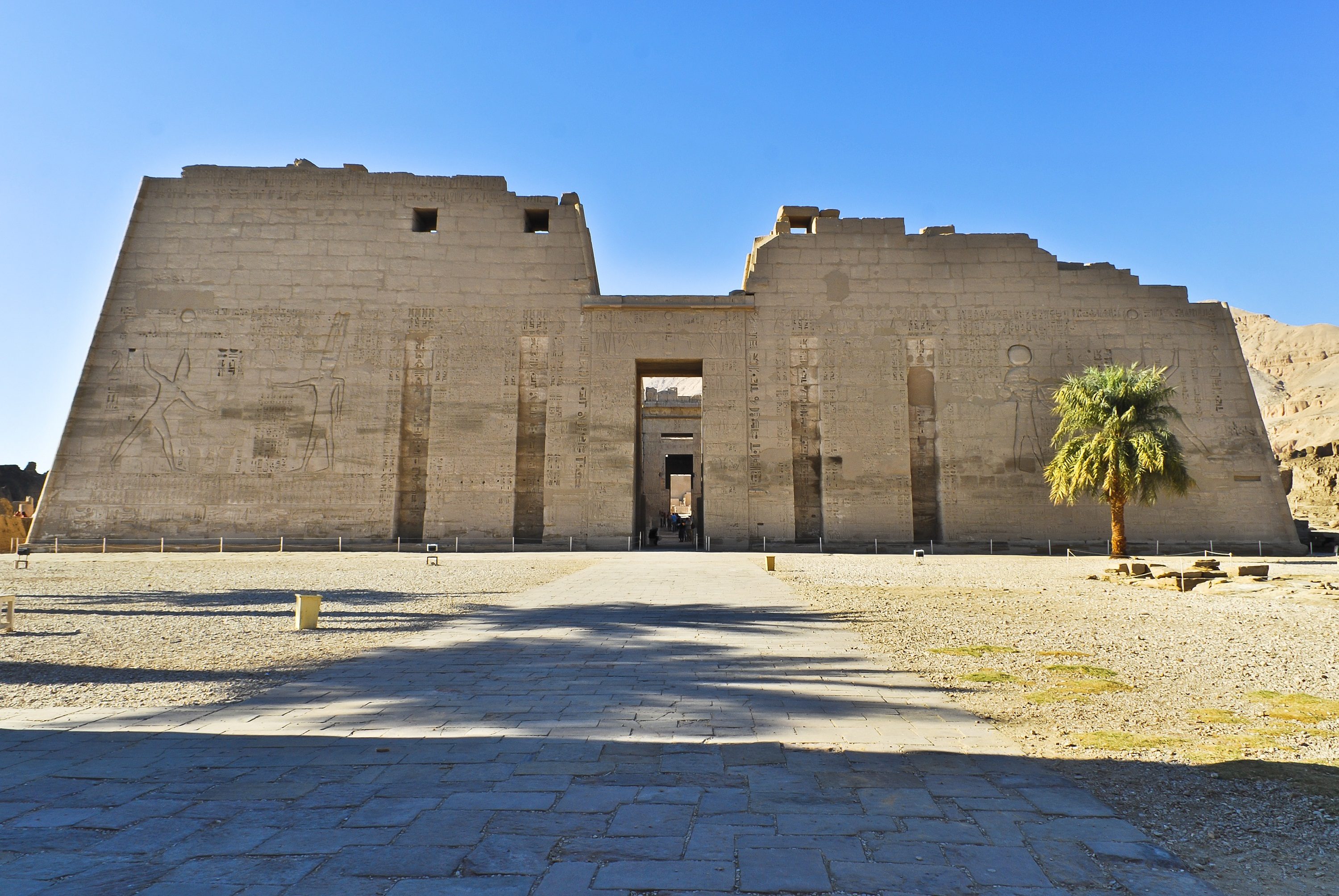 The temple, some 150m long, is of orthodox design, and resembles closely the mortuary temple of Ramesses II (the Ramesseum). It is quite well preserved and surrounded by a massive mudbrick enclosure, which may have been fortified. The original entrance is through a fortified gate-house, known as a migdol (and resembling an Asiatic fortress). Just inside the enclosure, to the south, are chapels of Amenirdis I, Shepenupet II and Nitiqret, all of whom had the title of Divine Adoratrice of Amun. The first pylon leads into an open courtyard, lined with colossal statues of Ramesses III as Osiris on one side, and uncarved columns on the other. The second pylon leads into a peristyle hall, again featuring columns of Ramses III. This leads up a ramp that leads (through a columned portico) to the third pylon and then into the large hypostyle hall (which has lost its roof). In Coptic times, there was a church inside the temple structure, but it has since been removed. Some of the carvings in the main wall of the temple have been altered by Coptic carvings.